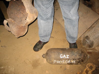 Photograph of Phosgene gas bomb from the British Livens Projector unearthed at the Somme, 2006